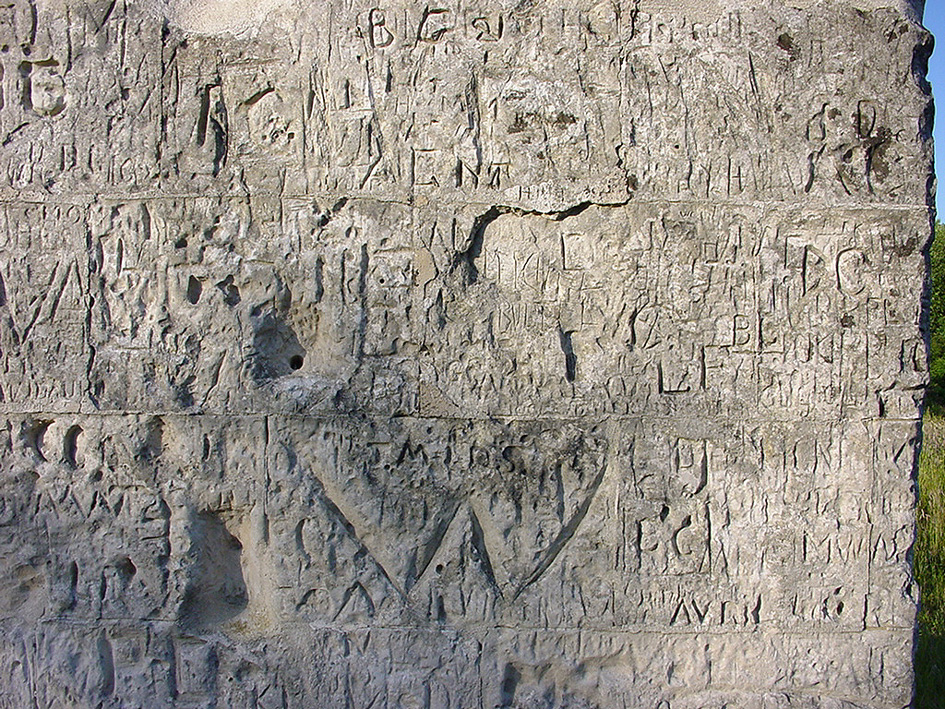 Site of Colonne d'Helfaut, Near Helfaut, Pas de Calais, north of france)